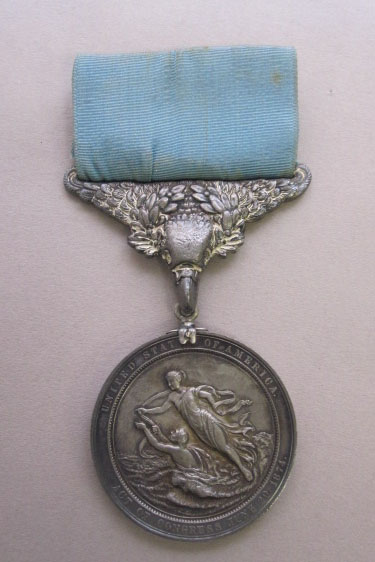 Accession: 99-130-AN Medal, Life Saving, Silver, US Navy 4.25H", 2.25"W Medal life saving, silver, awarded to" Chester W. Nimitz for bravely saving a man from drowning March 20 1912." Medal awarded by the Treasury to the services and civilians prior to 1947. Collection of Curator Branch Naval History Heritage Command.